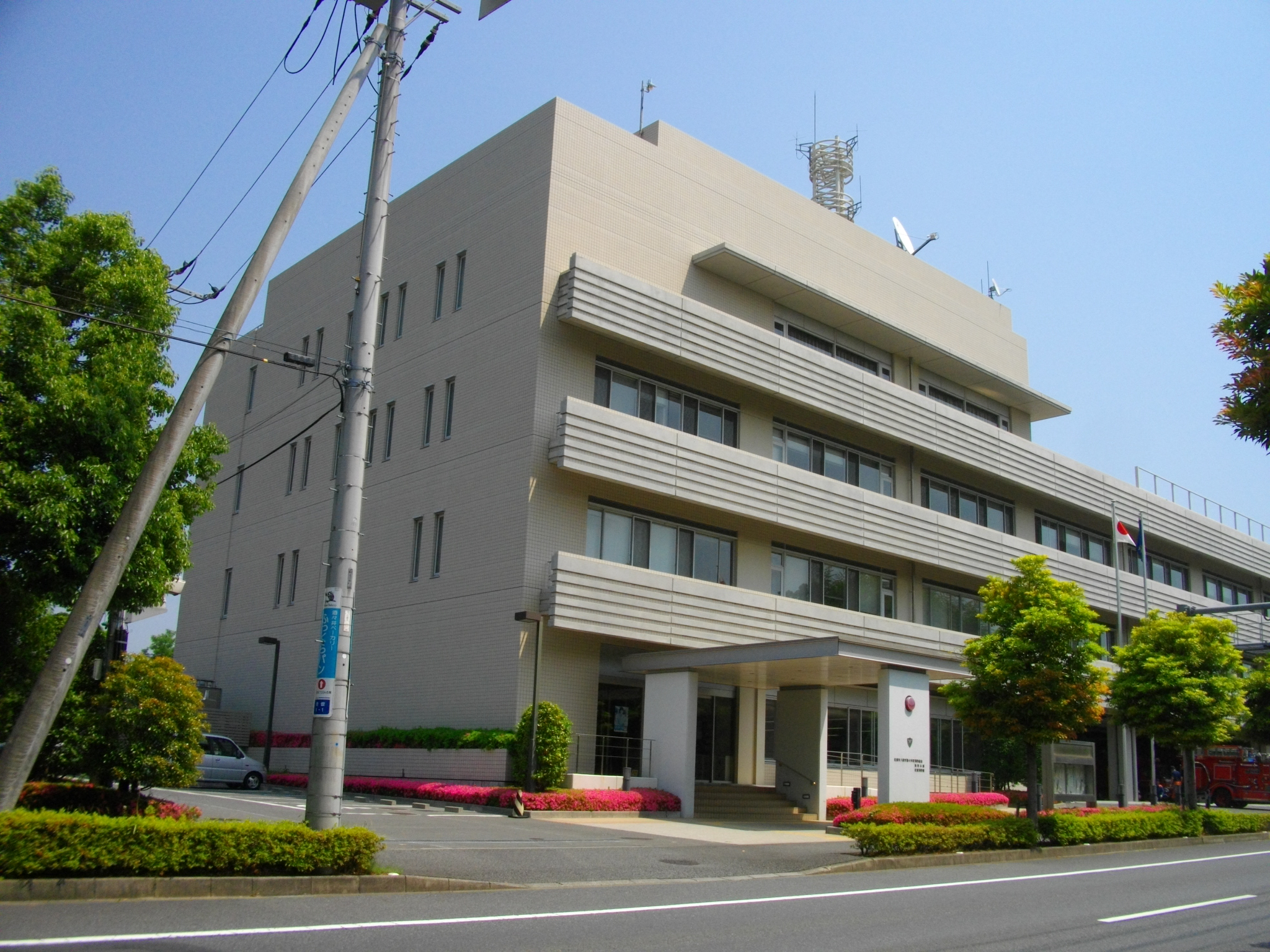 Sakura City, Yachimata City and Shisui Town Fire Department